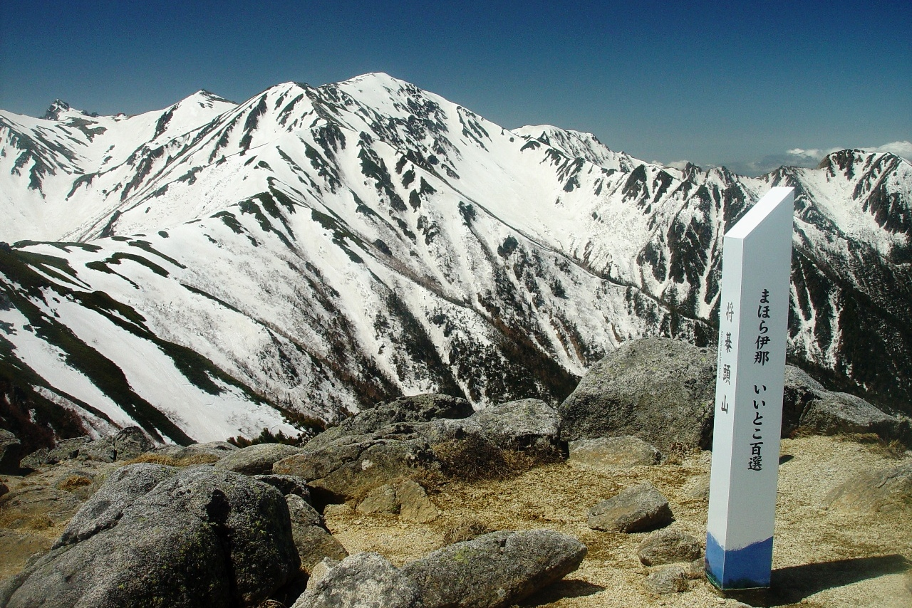 Mount Kisokoma from_Shogigashirayama